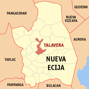 Map of Nueva Ecija showing the location of Talavera